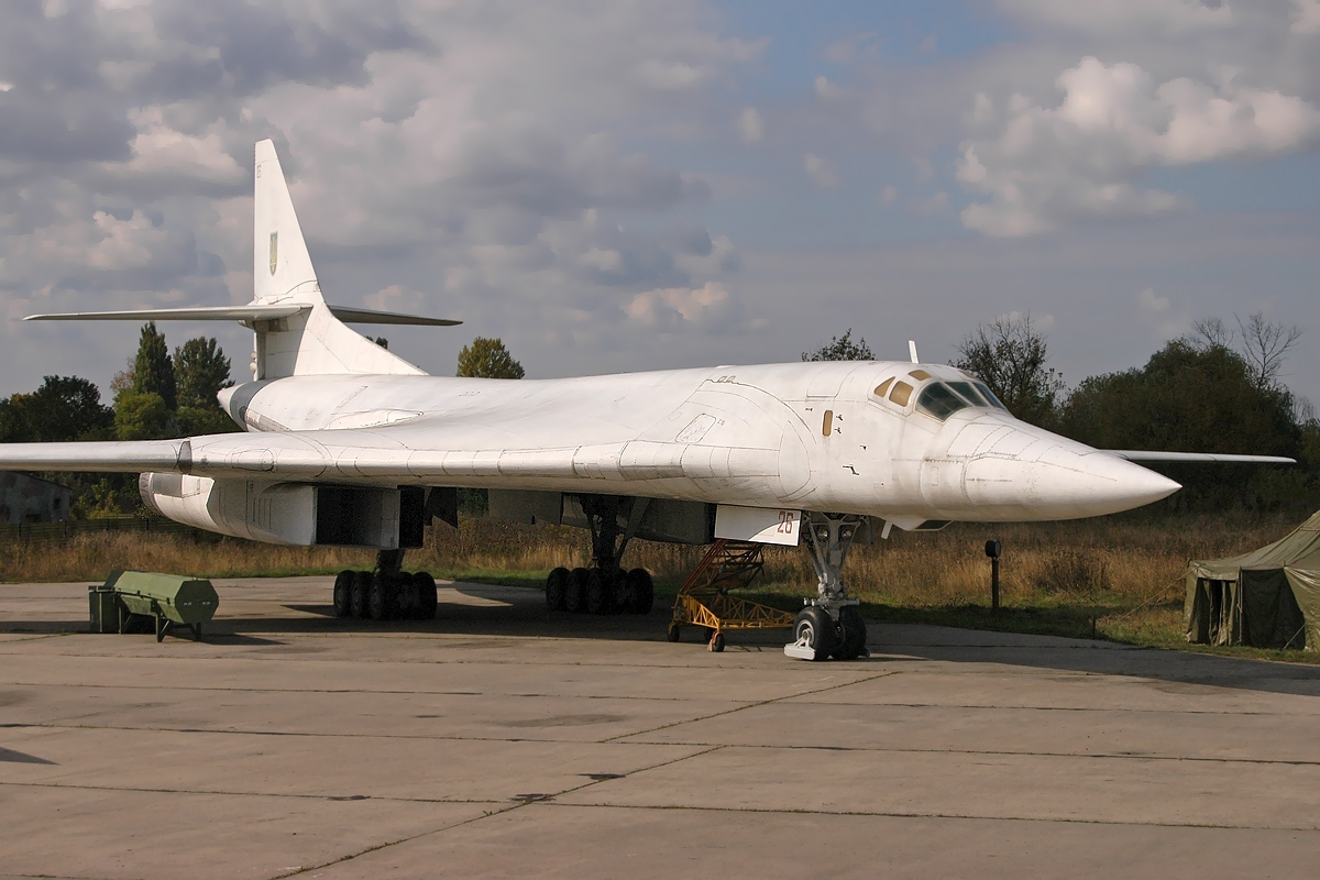 Ukrainian Air Force Tupolev Tu-160 strategic bomber at former Poltava-4 airbase.